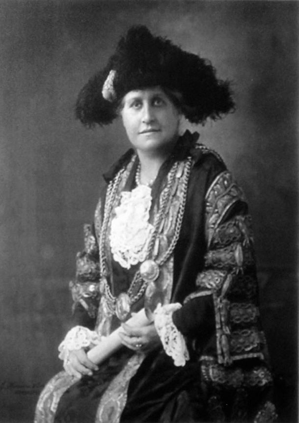 official photograph of Florence Farmer, first woman to be Lord Mayor of the City of Stoke-on-Trent pictured in her mayoral robes and chain at her inauguration in November 1931.